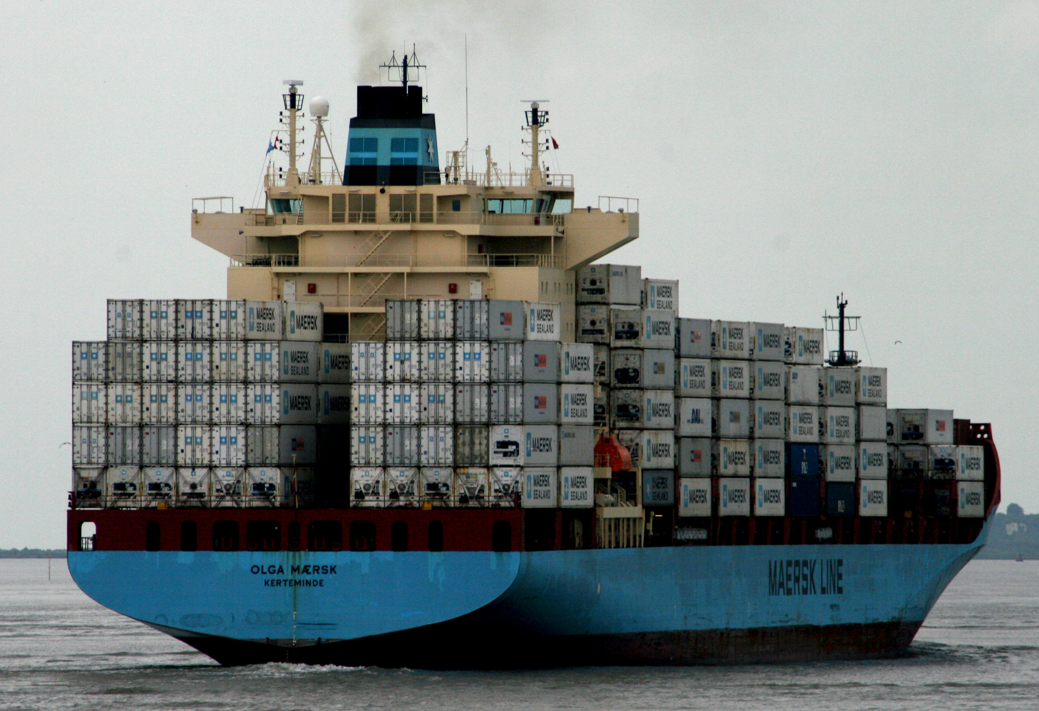 The container ship Olga Maersk outbound from Tilbury Docks. She is operated by A P Moller (Maersk Line) of Denmark.